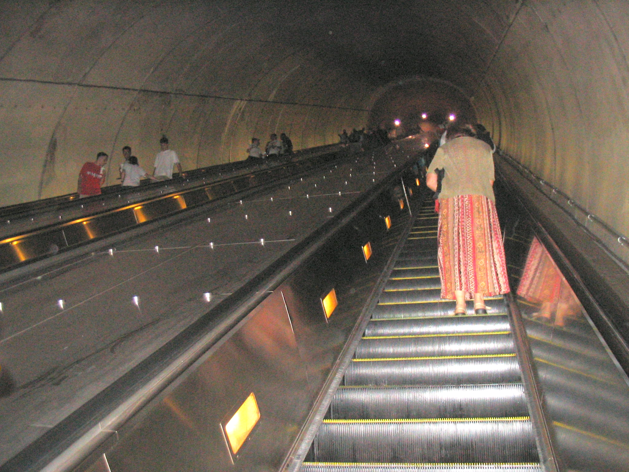 A very long escalator in the Washington Metro. This is the main escalator going from the mezzanine (tickets/farecard level) up to street level at the Bethesda Station in Bethesda, Maryland.